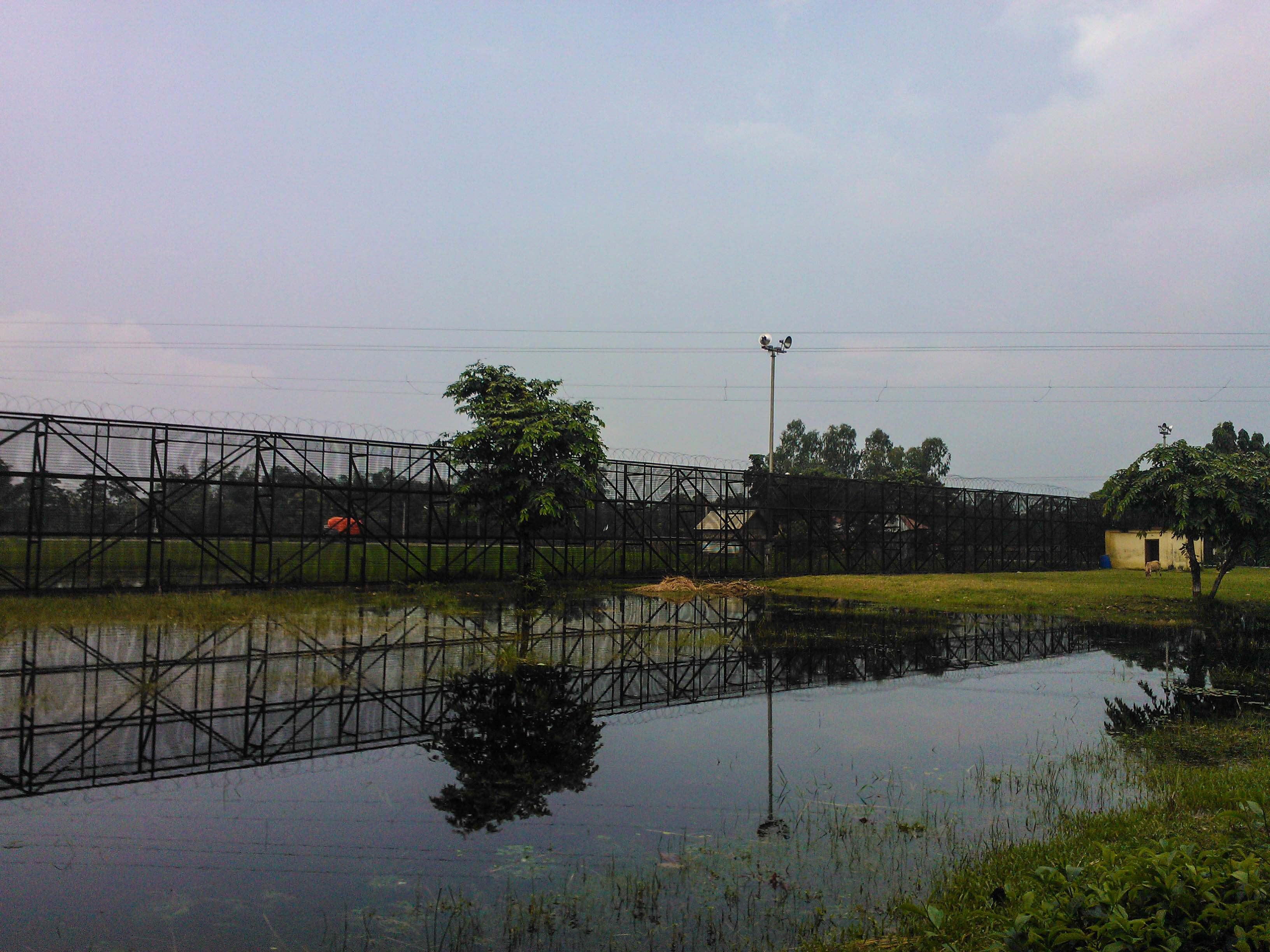 Tin Bigha Corridor (তিনবিঘা করিডর). The ‘Tin Bigha Corridor’ connceting the Dahgram-Angarpota enclave with mainland Bangladesh.